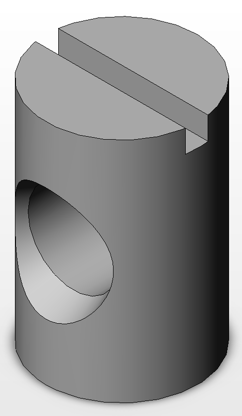 Solidworks model of a cross dowel